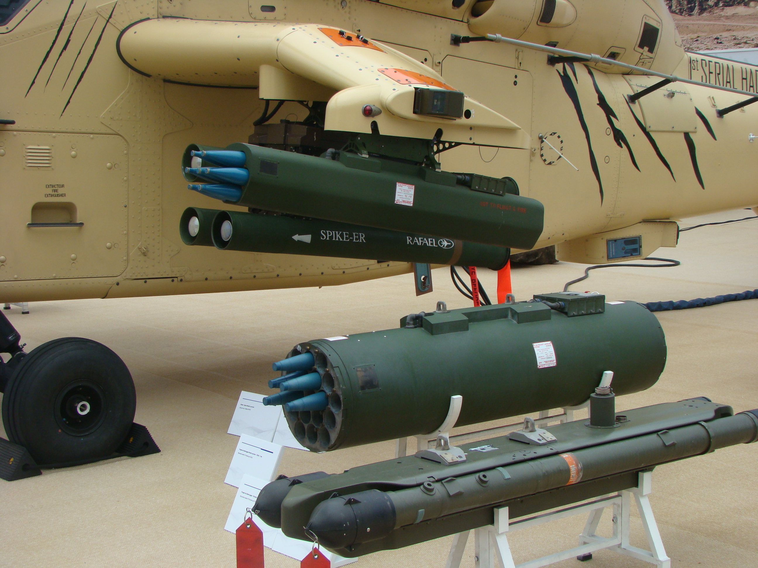 Eurocopter Tiger.